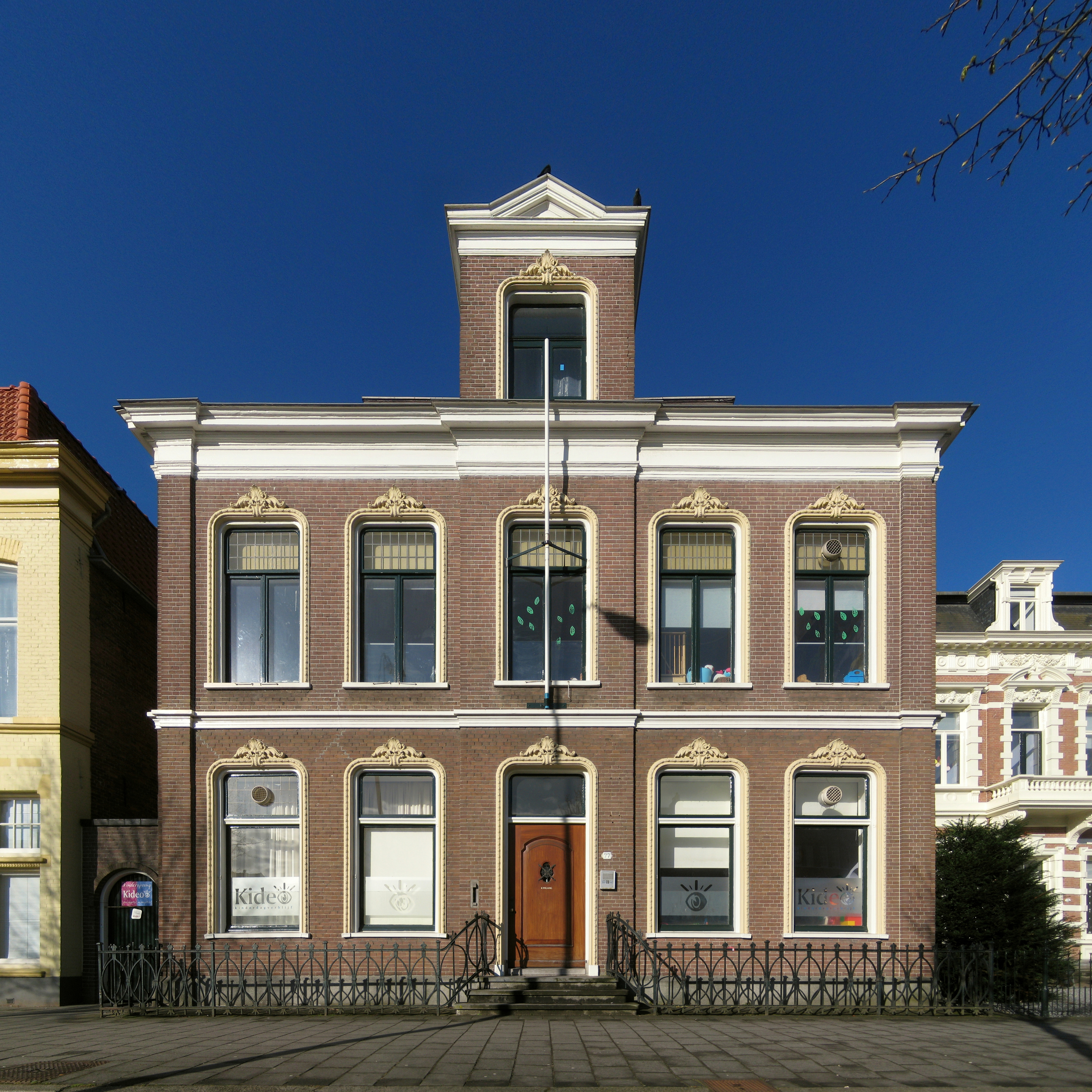 House (c. 1885) in the Dutch city of Groningen.